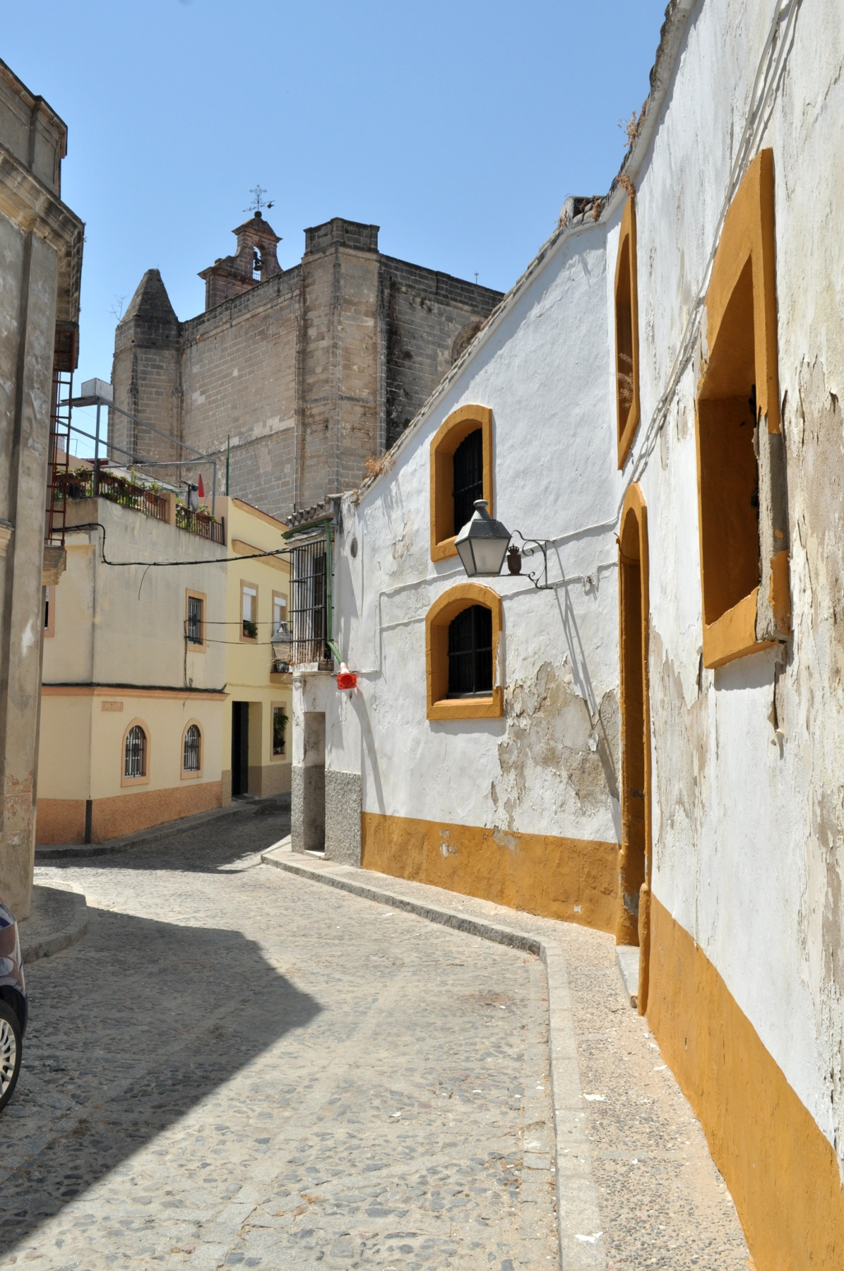 Small Bad Place, Jerez. St. Matthew in the back.